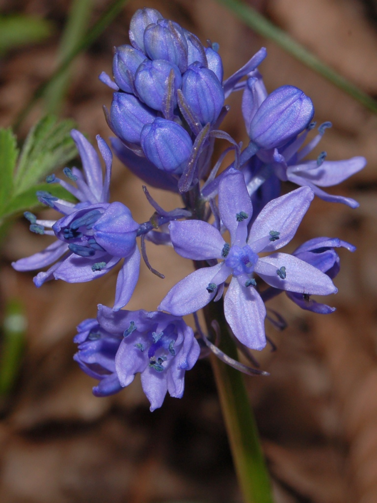 Hyacinthoides italica - Val Noci, Genova, Italy